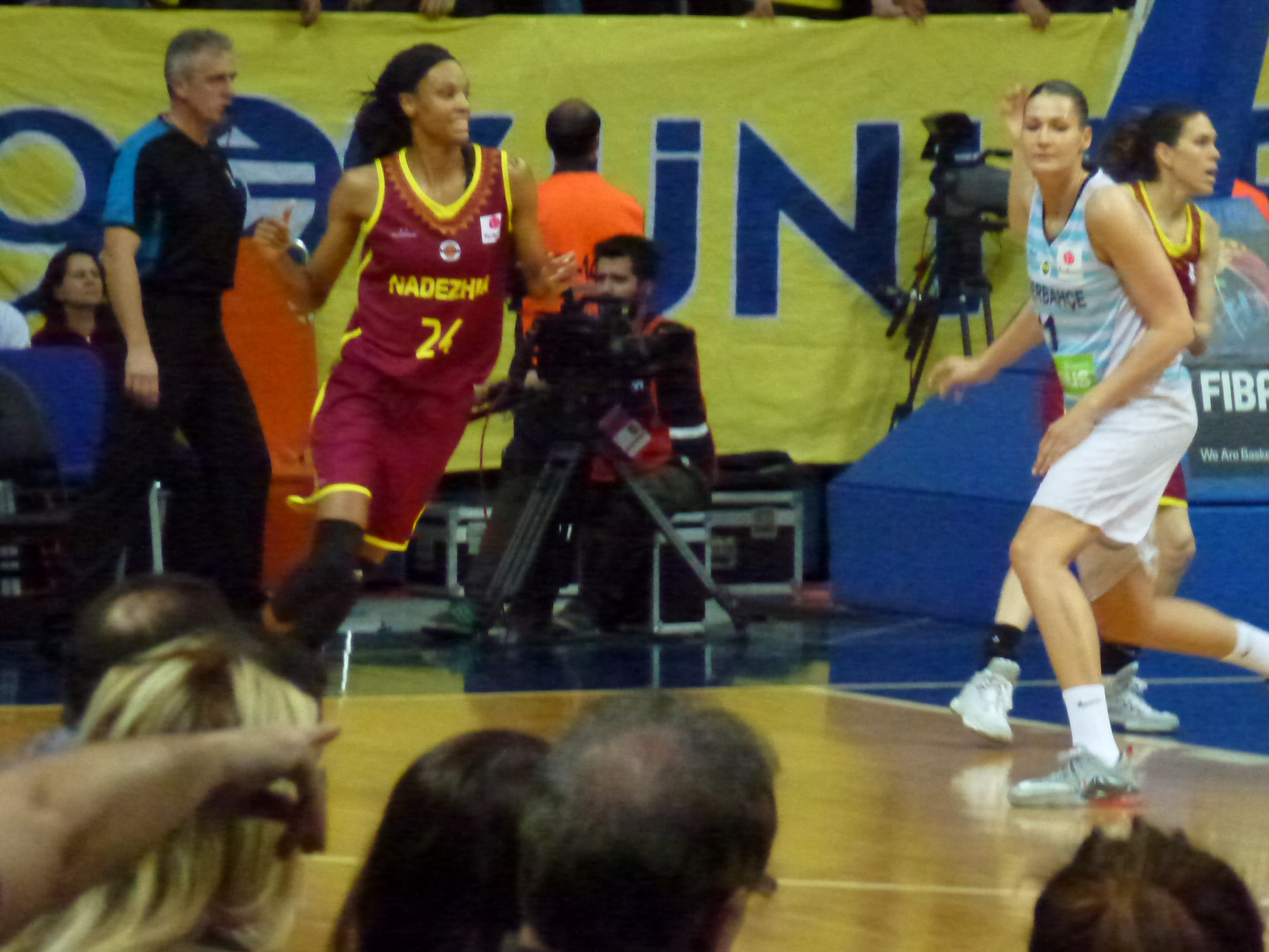 Fenerbahçe Women's Basketball - Nadezhda Orenburg 2015-16 EuroLeague Women semi final on 15 April 2016 in Ülker Sports Arena